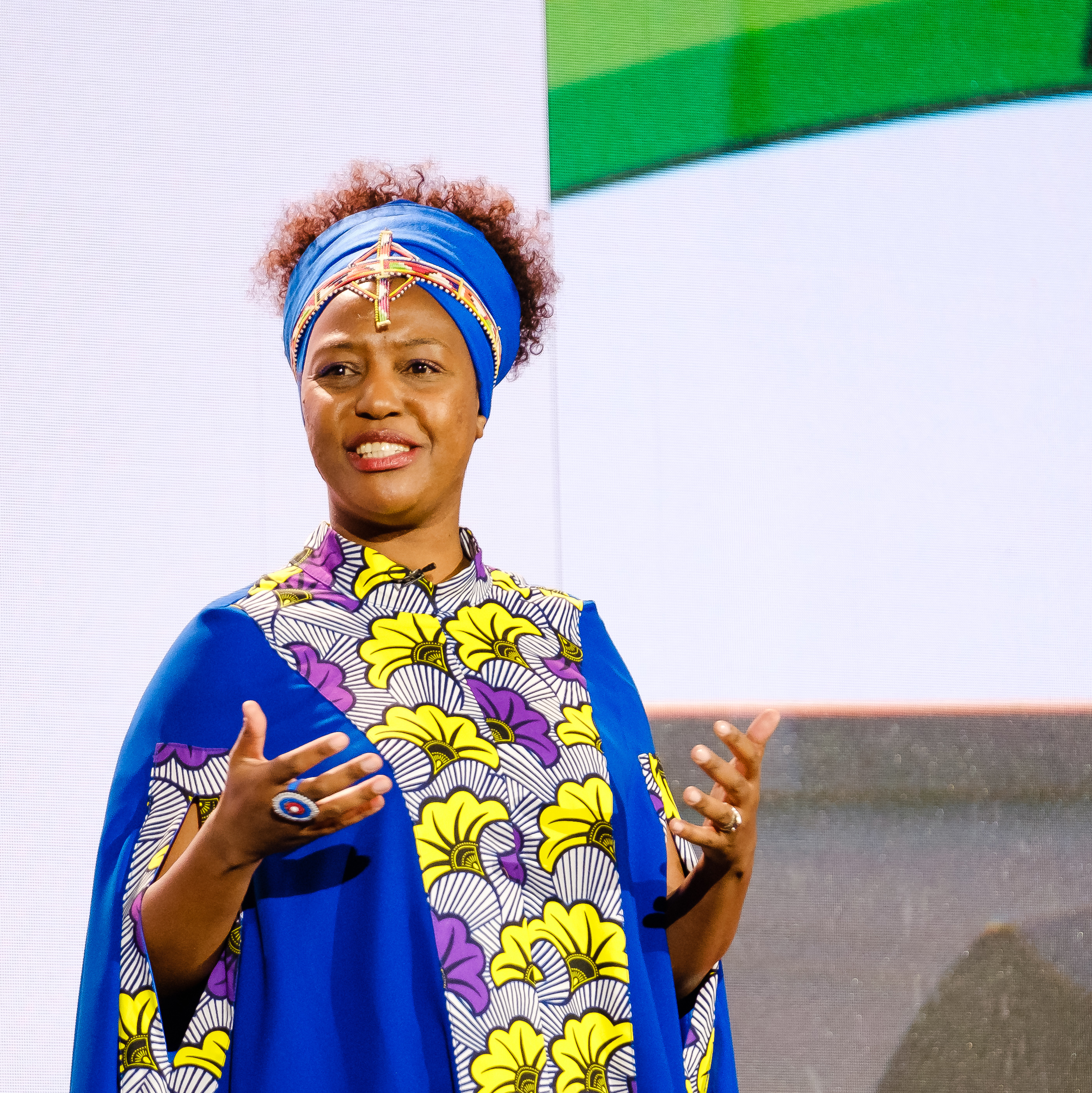 Ciiru Wawera Waithaka, Co-founder and CEO of FunKidz, speaking at the UK-Africa Investment Summit in London, 20 January 2020 Picture: DFID/Graham Carlow